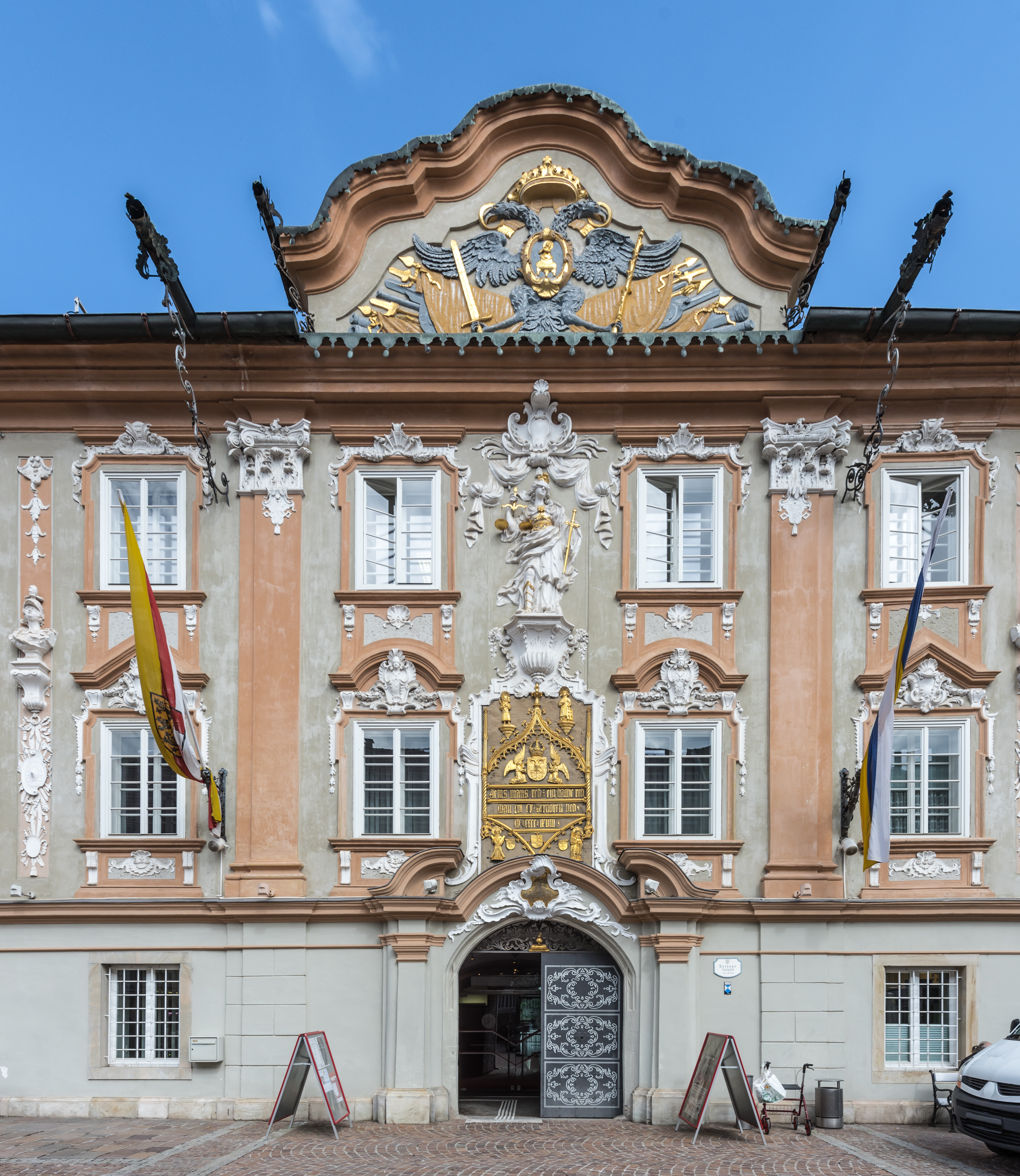 Townhall in gothic style on Hauptplatz #1, city St. Veit an der Glan, district Sankt Veit, Carinthia, Austria, EU